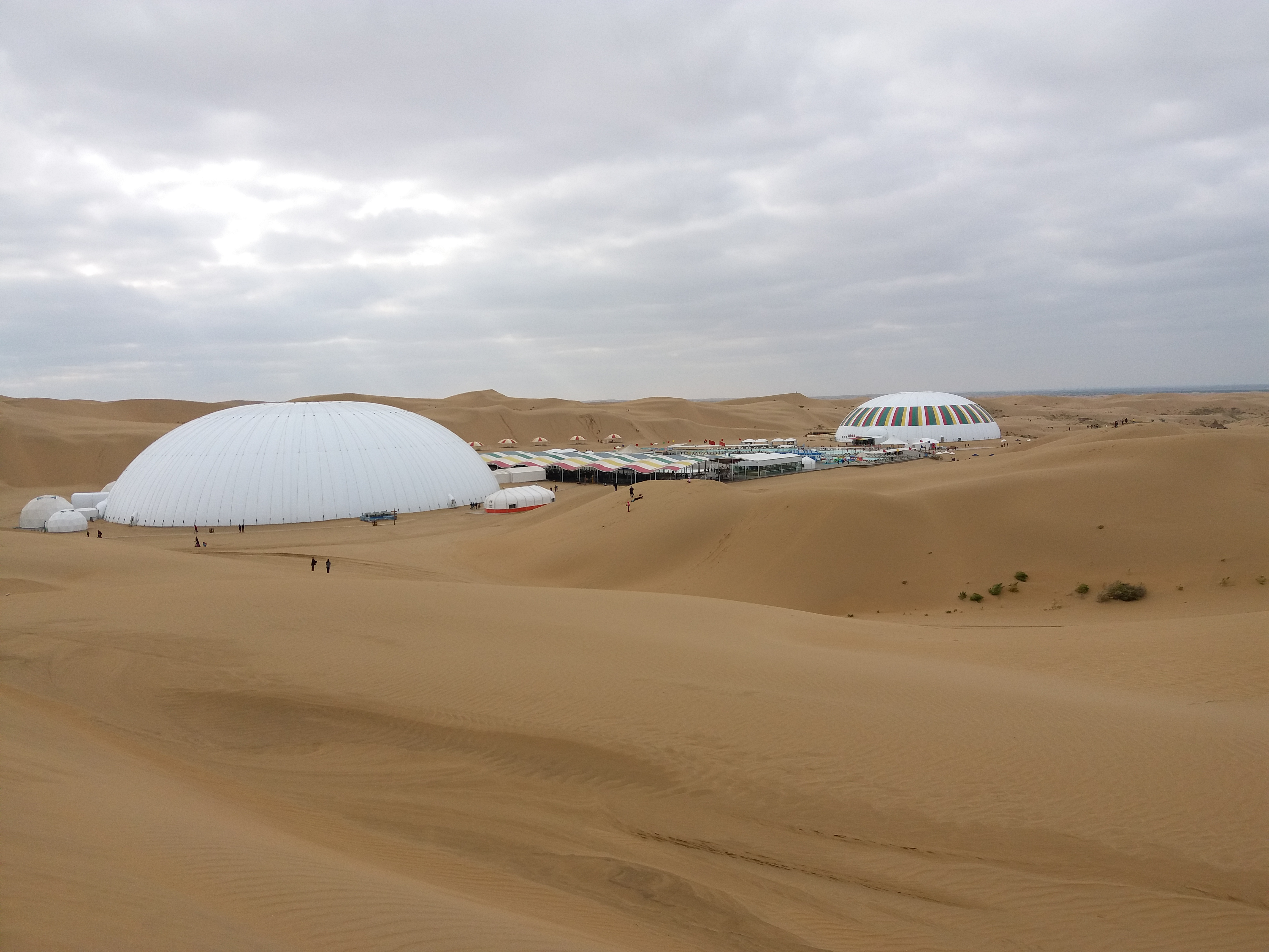 The bubble tent in the background is Nomad Theater in the desert of Xiangshawan, Dalad Banner, Ordos, Inner Mongolia, China